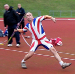 Roald Bradstock throwing in his latest hand-painted Union Jack outfit.